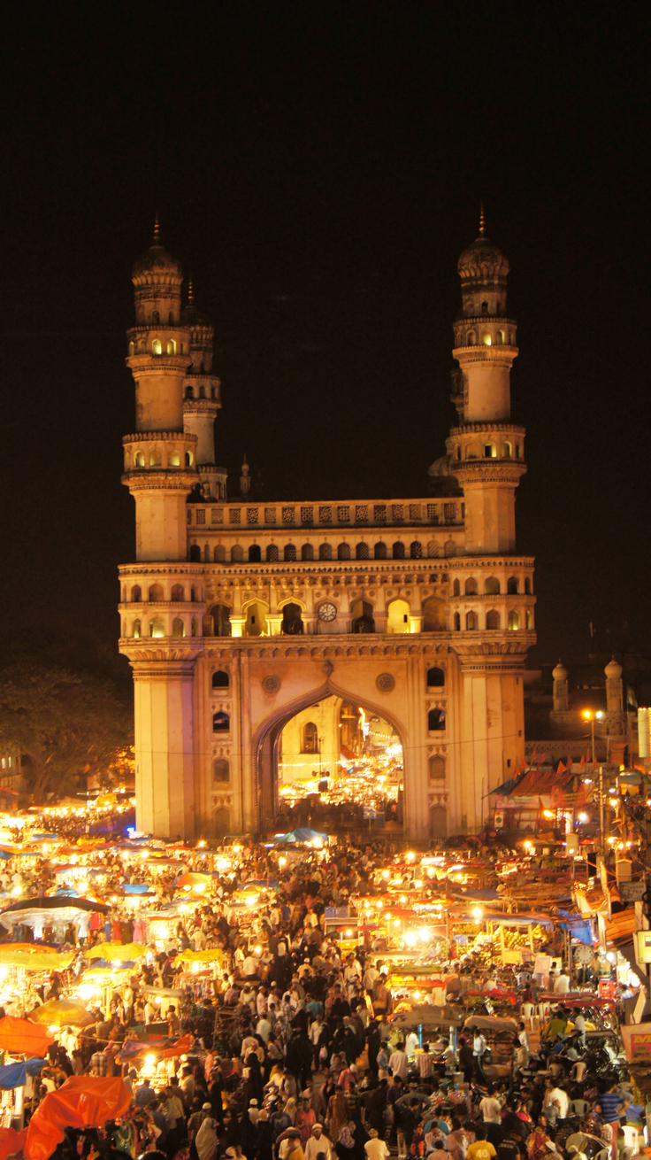 Charminar